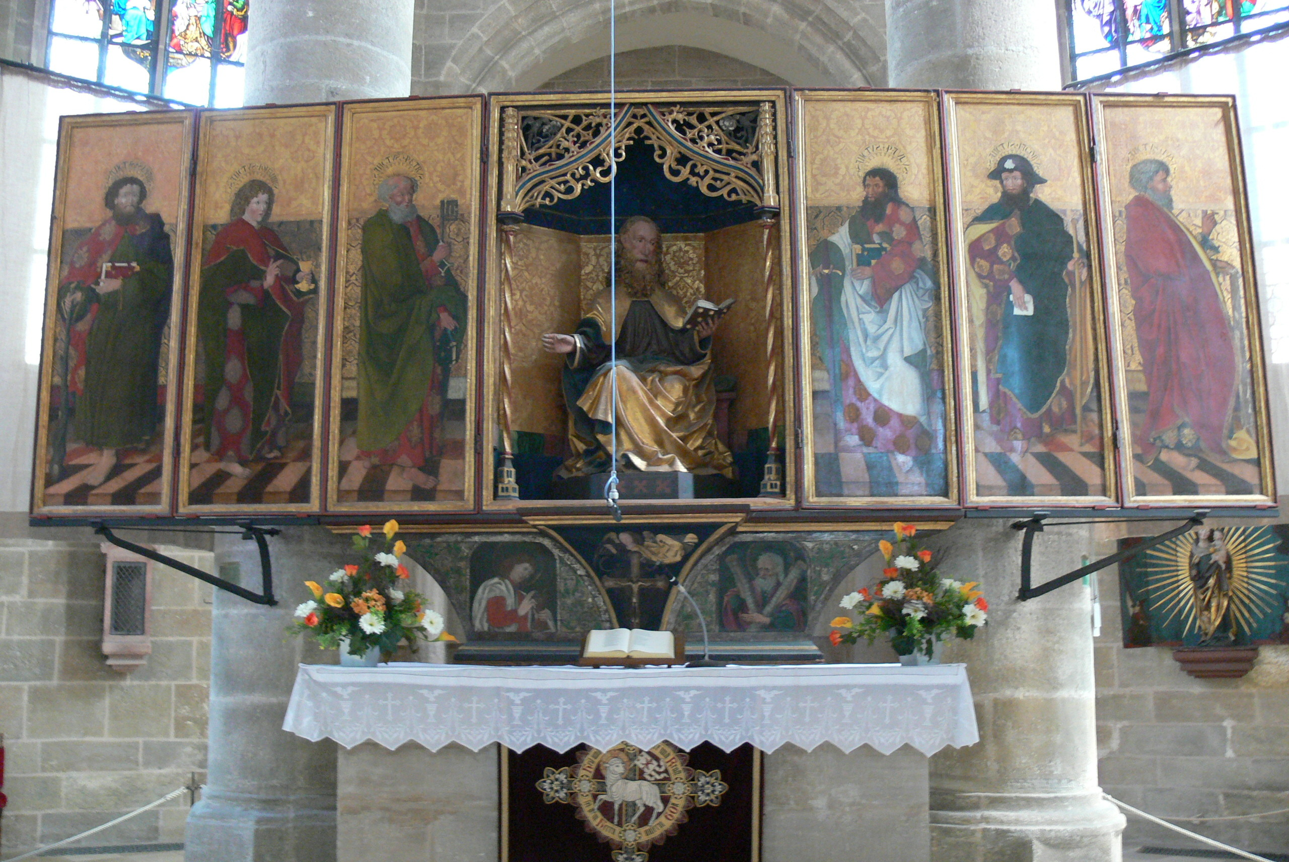 St.Andreas parish church in Weißenburg ( Bavaria ). Altar of Saint Andrew ( 1500s ).